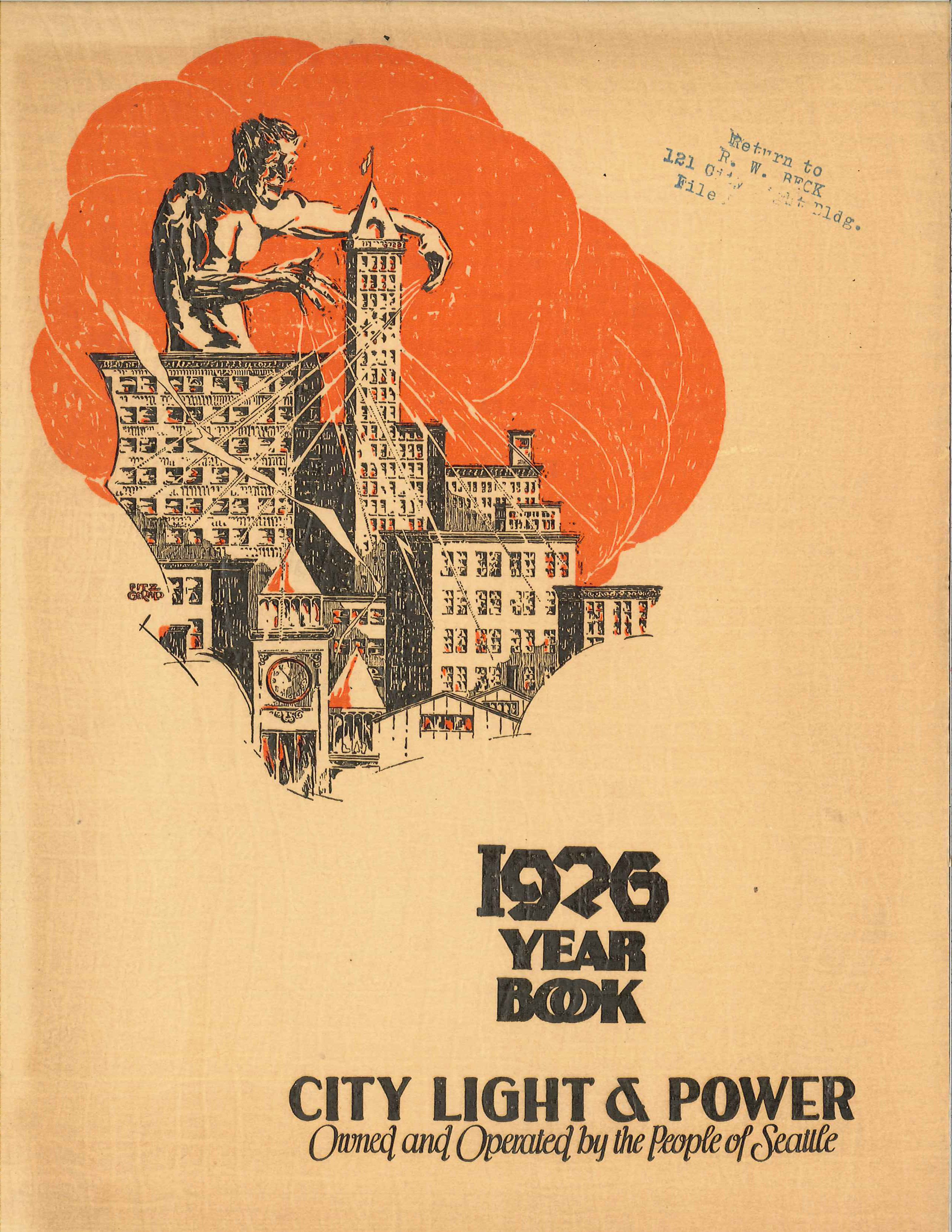 Seattle City Light Year Book, 1926 Document 9024, Published Document Collection, Seattle Municipal Archives.